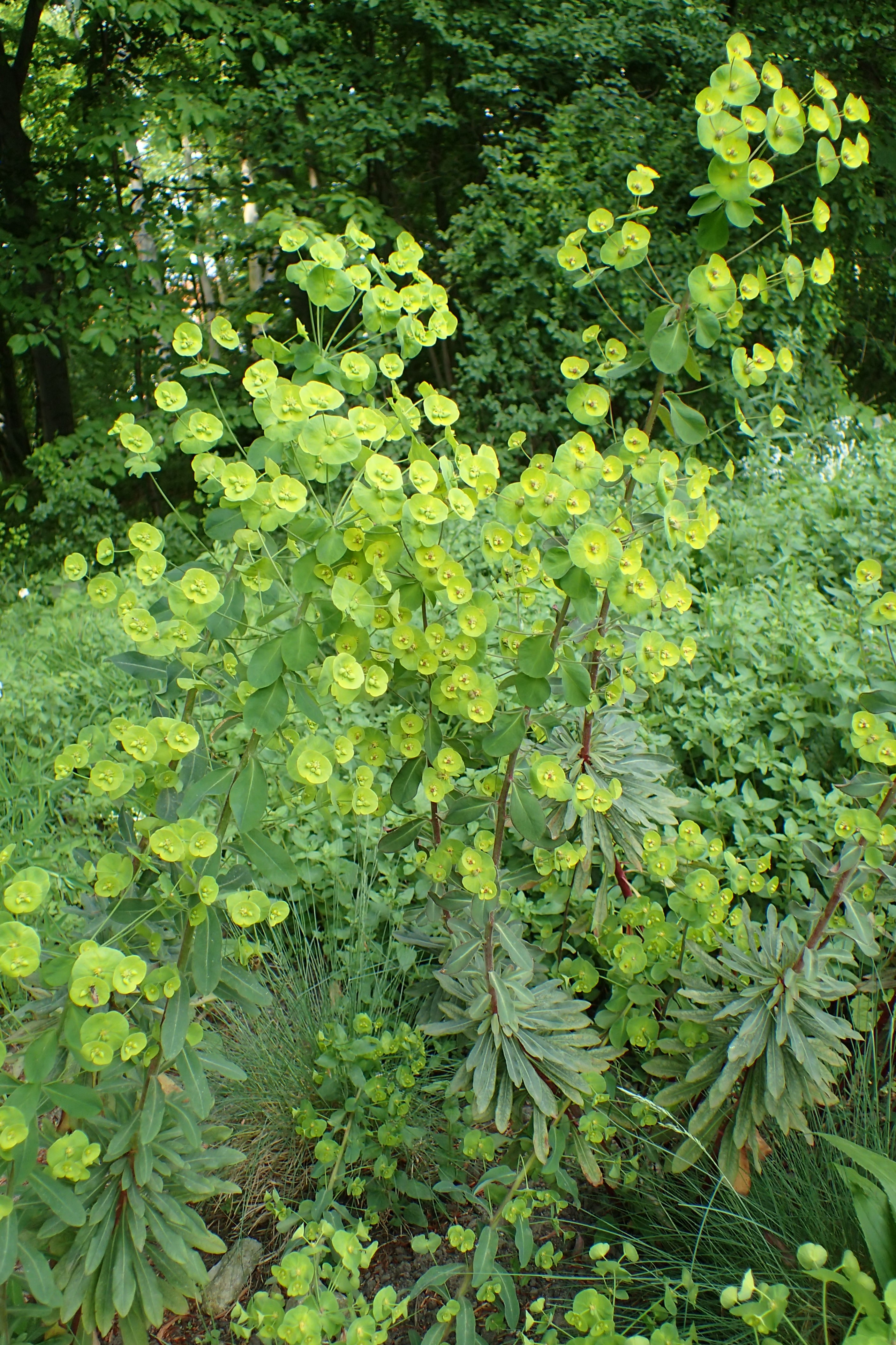 Euphorbia amygdaloides in the Botanischer Garten, Berlin-Dahlem